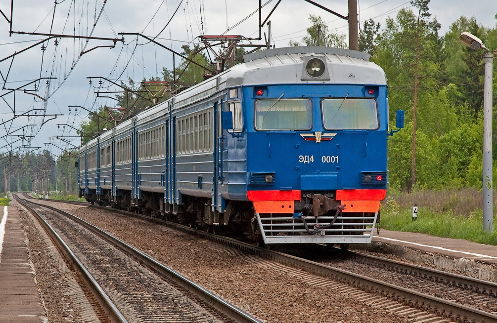 EMU ED4-0001 on Big railway loop Moscow railway, Vladimir region